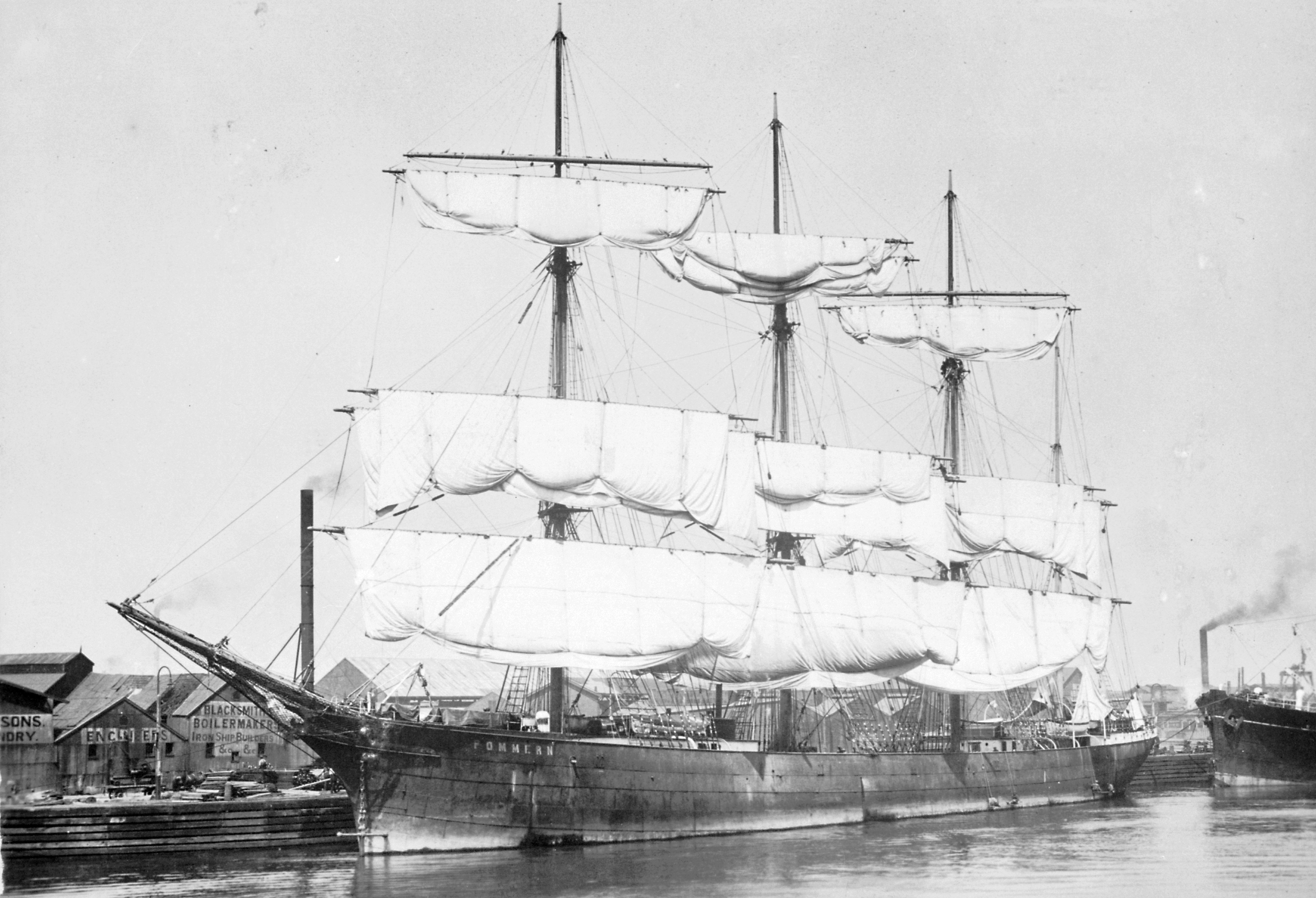 Four masted barque at wharf. POMMERN., Mariehamn. 2113. Built at Glasgow. 1903. Ex. Mneme. (Steel)